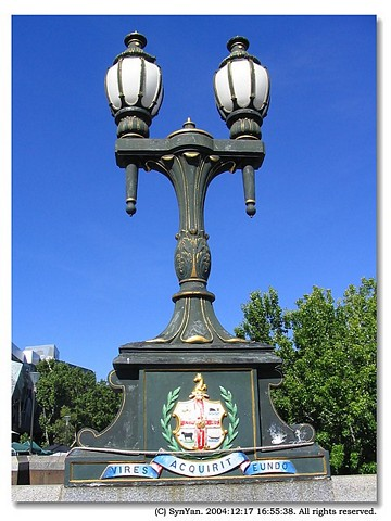 Christmas in Melbourne Australia